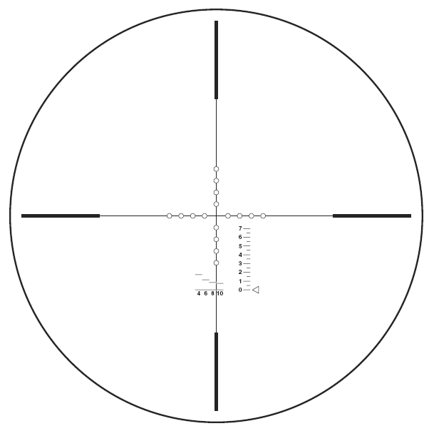 Optical sight reticule pattern sharpshooting rifle G22.